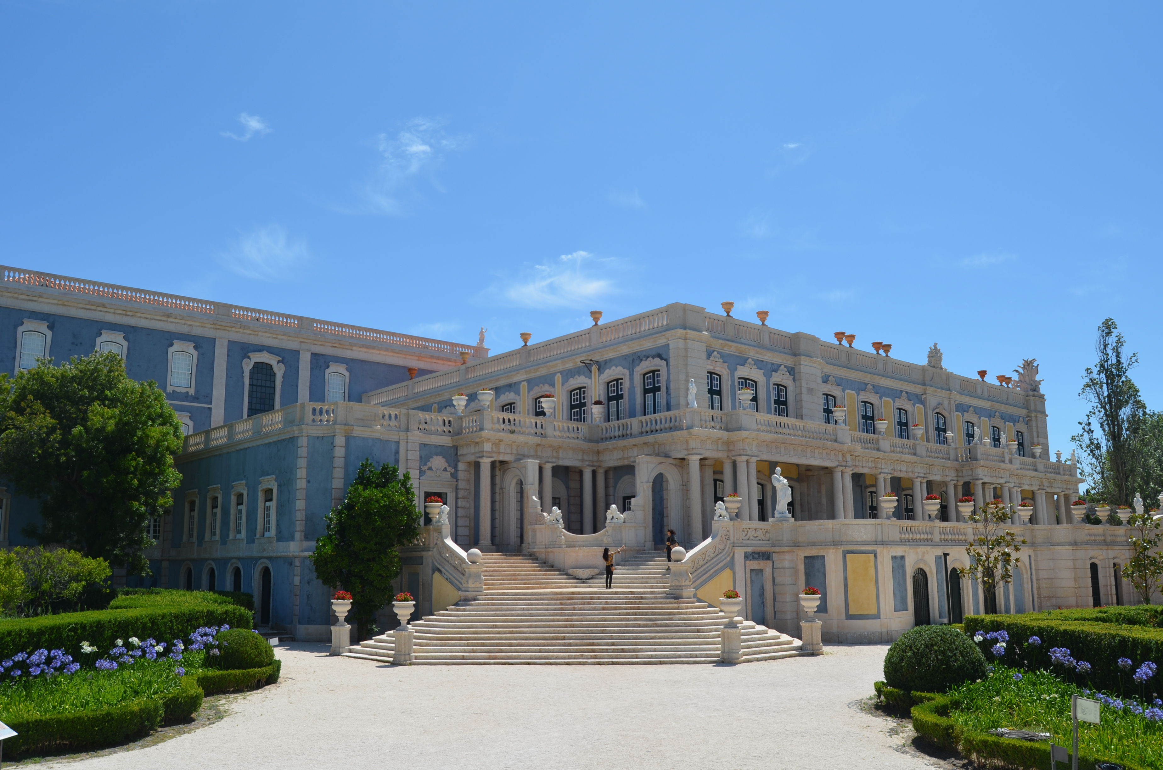 On a bright Summer day